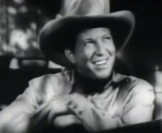 Cropped screenshot of Johnnie Davis from the trailer for the film Cowboy from Brooklyn.